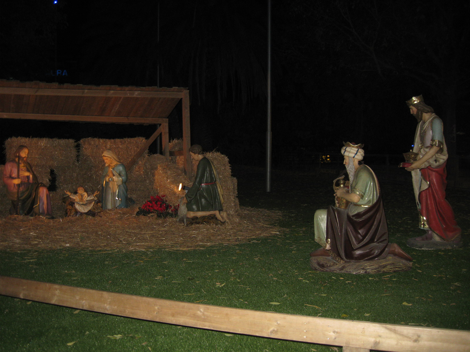 Pesebres que se ponen cada año en la Plaza de la Vila de Santa Coloma